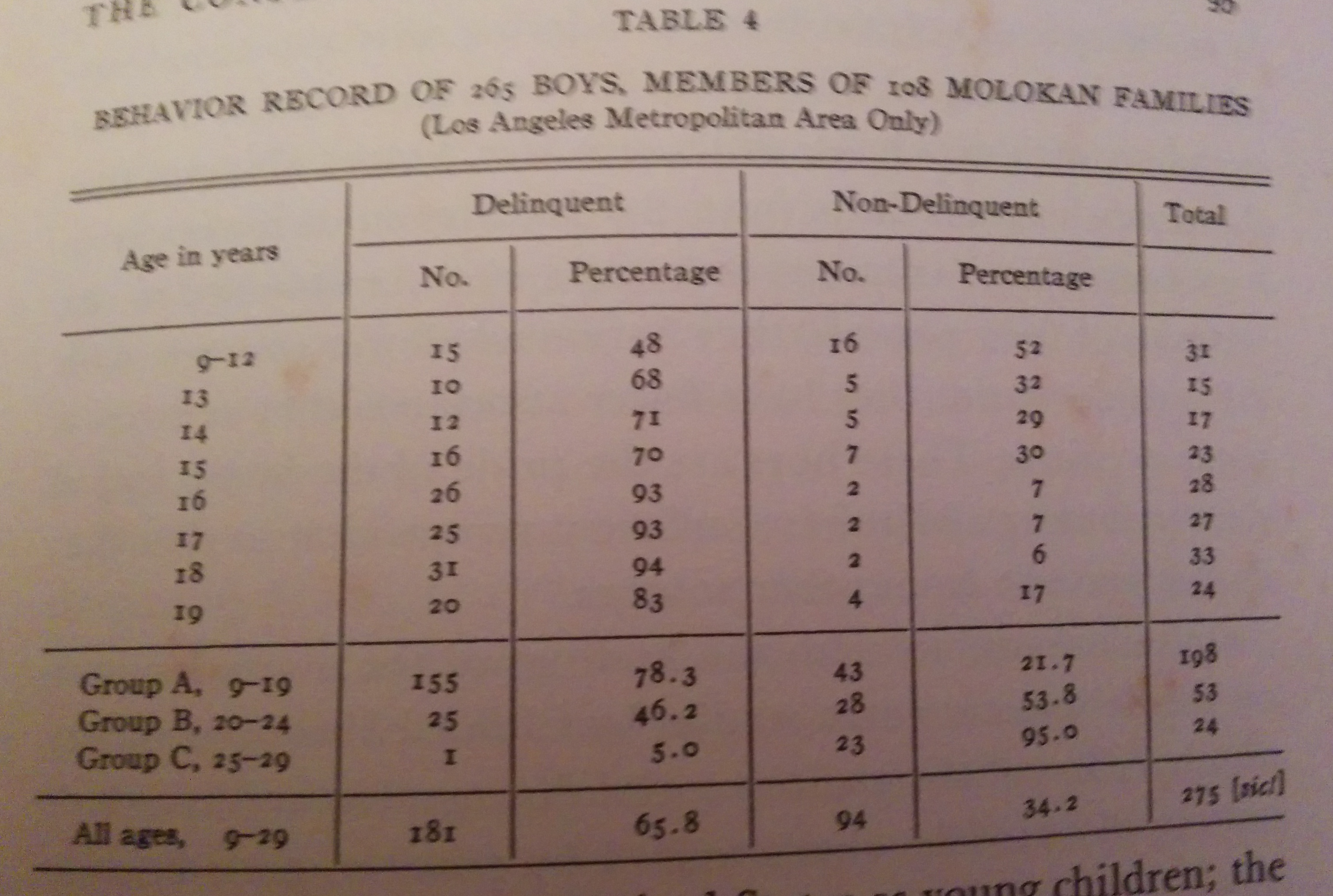 Graph by Thorsten Sellin.